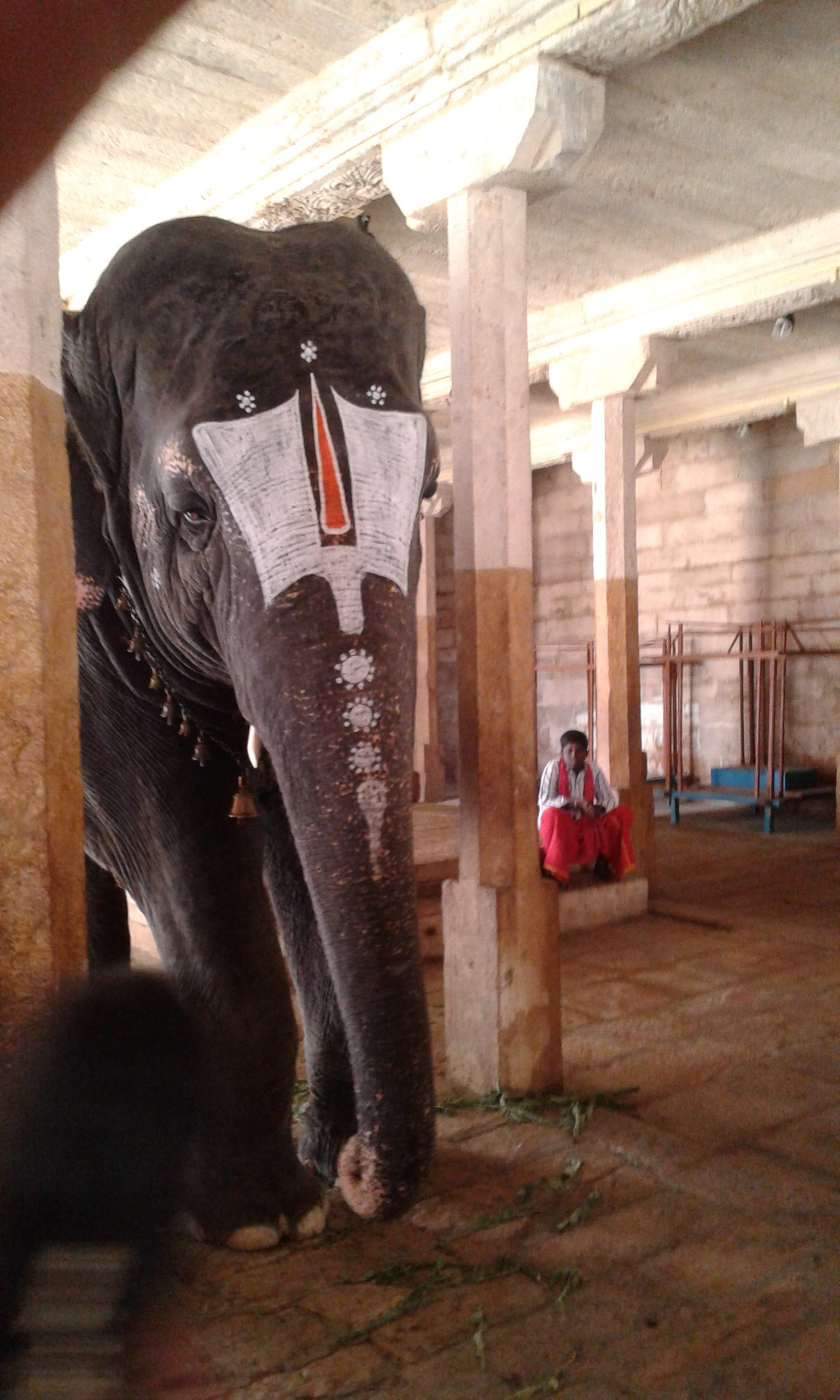 Thirukkolur